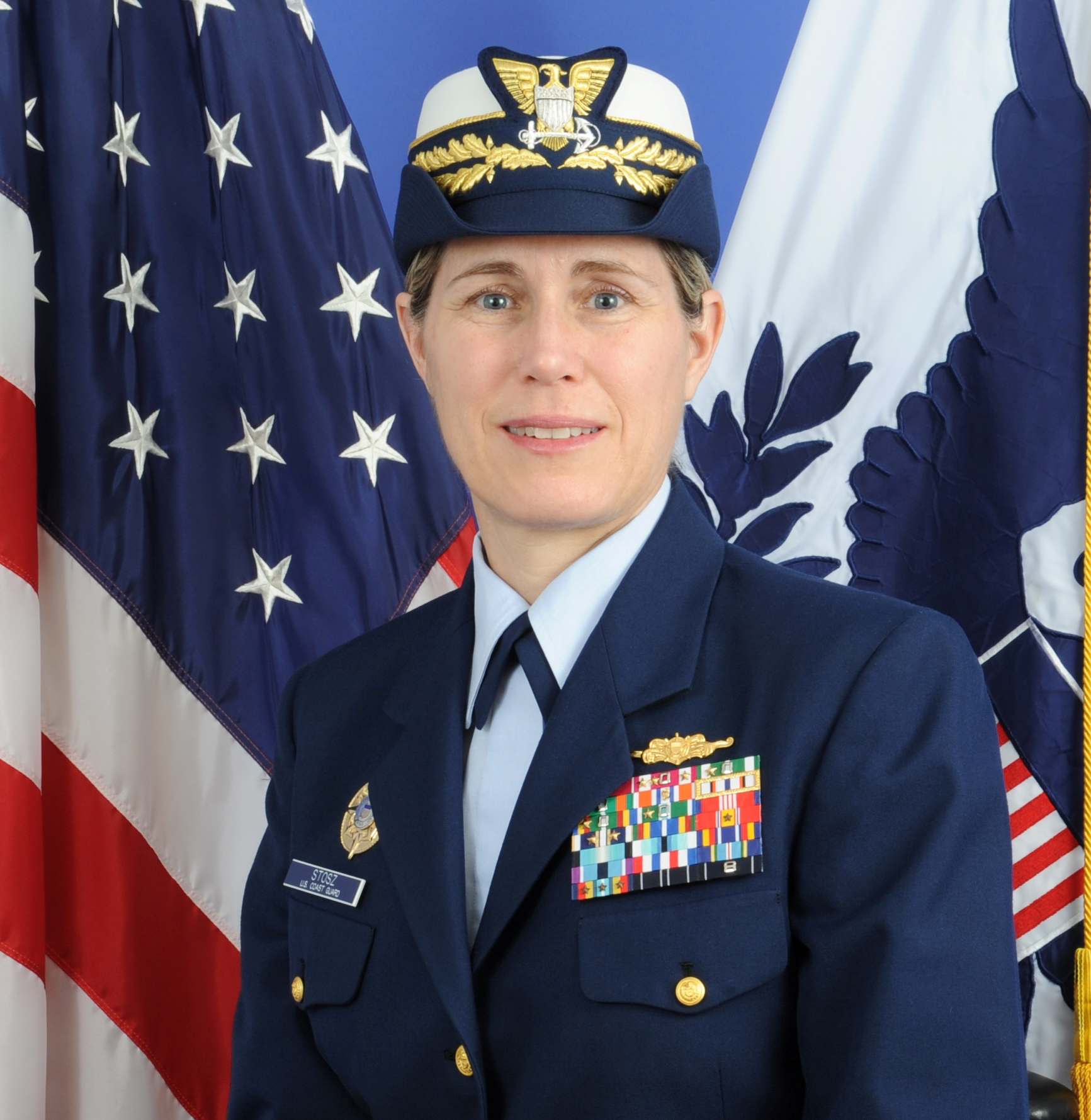 Portrait of Sandra L. Stosz as RDML